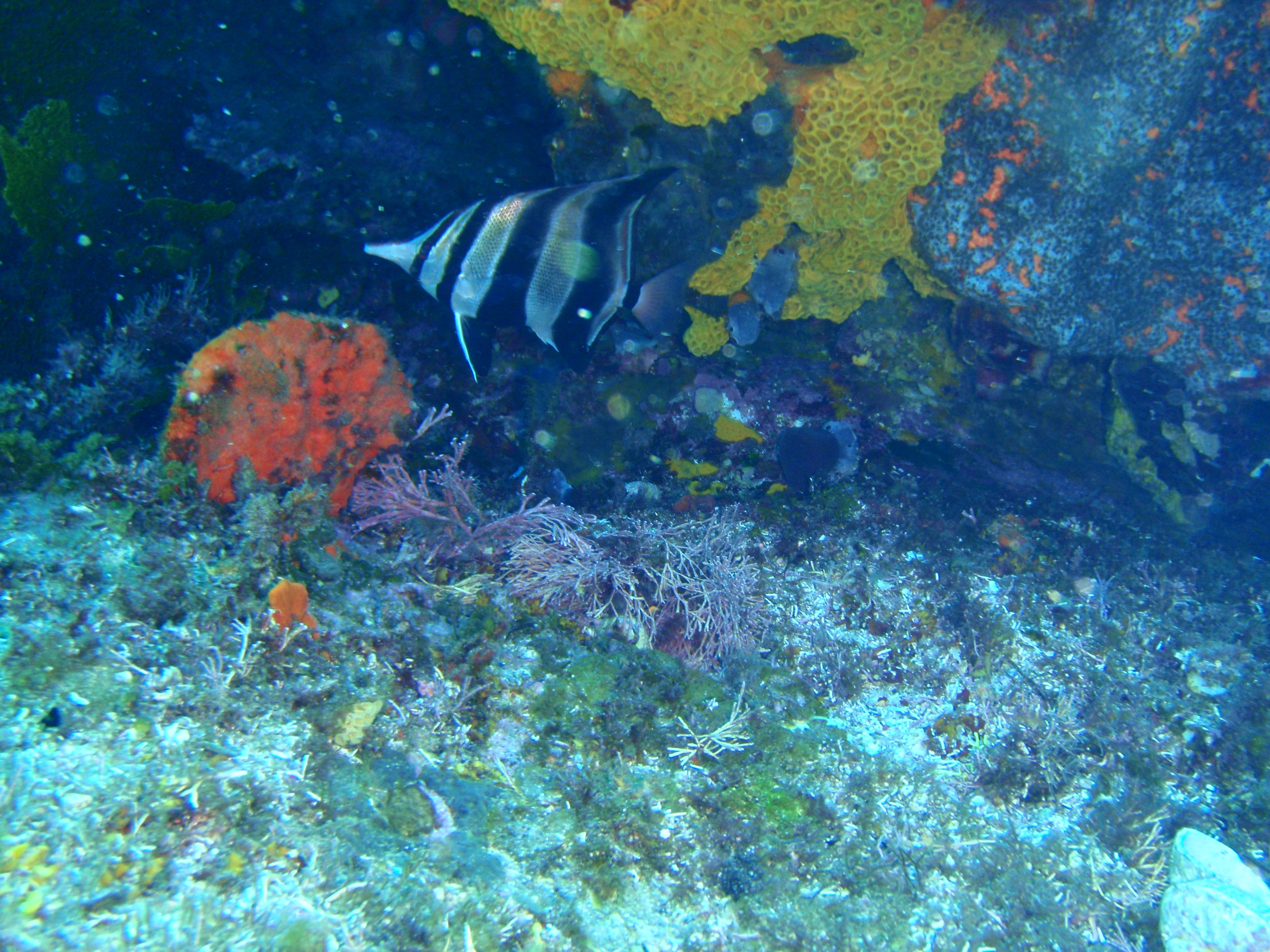 Western talma Chelmonops curiosus at the northeast point of Mondrain Island, Western Australia